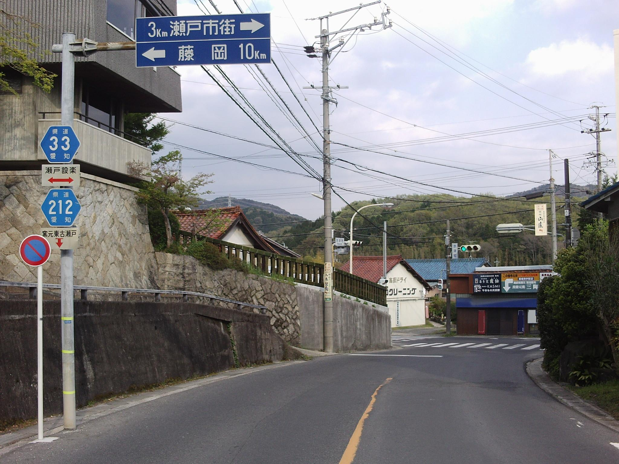 Aichi prefectural road No.212 in Akadzucho, Seto, Aichi.